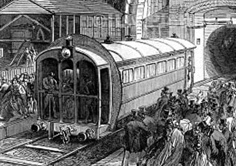 Crystal Palace pneumatic railway.